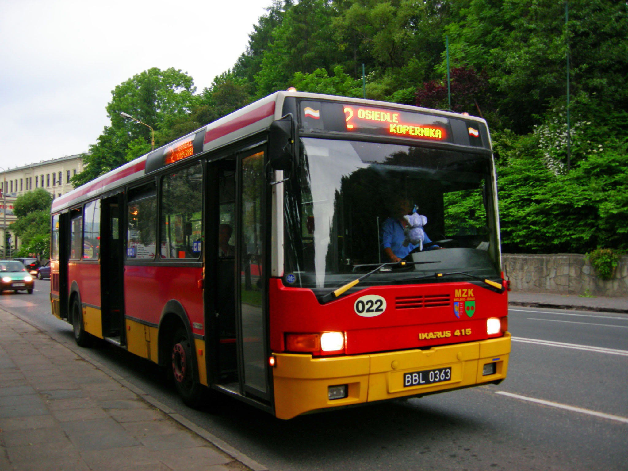 Ikarus 415.14B bus (#022, reg. BBL 0363) in Bielsko-Biała, Poland. Built 1993, MZK Bielsko-Biała operator.